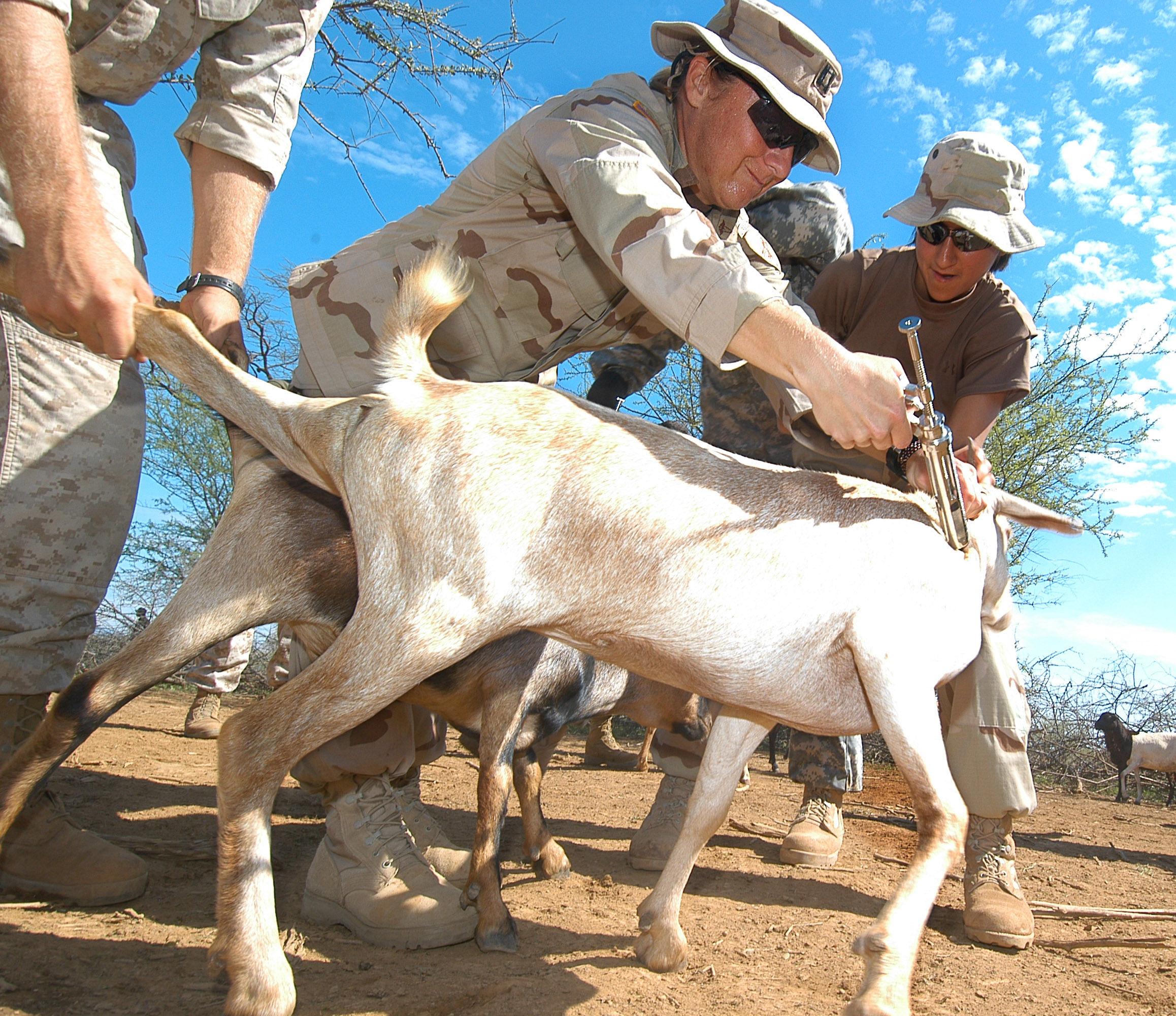 Chemeril, Kenya (Aug. 15, 2006) - U.S. Army Veterinarian, Capt Gwynne Kinley of Cape Elizabeth, Maine, immunizes a goat with the help of U.S. Navy Operations Specialist 2nd Class Jessica Silva, right, of Houston, Texas, and U.S. Marine Lance Cpl. Darrrell Brandes of Goliad, Texas. During exercise Natural Fire, over 2000 sheep and goats were vaccinated against Sheep Pox and Pleural Pneumonia at a Veterinary Civil Assistance Project (VETCAP) operated by U.S., Kenyan, Tanzanian and Ugandan veterinarians and doctors. Natural Fire is the largest combined exercise between Eastern African community nations and the United States, and includes medical, veterinary and engineering civic affairs programs. U.S. Navy photo by Mass Communication Specialist 2nd Class Roger S. Duncan (RELEASED)